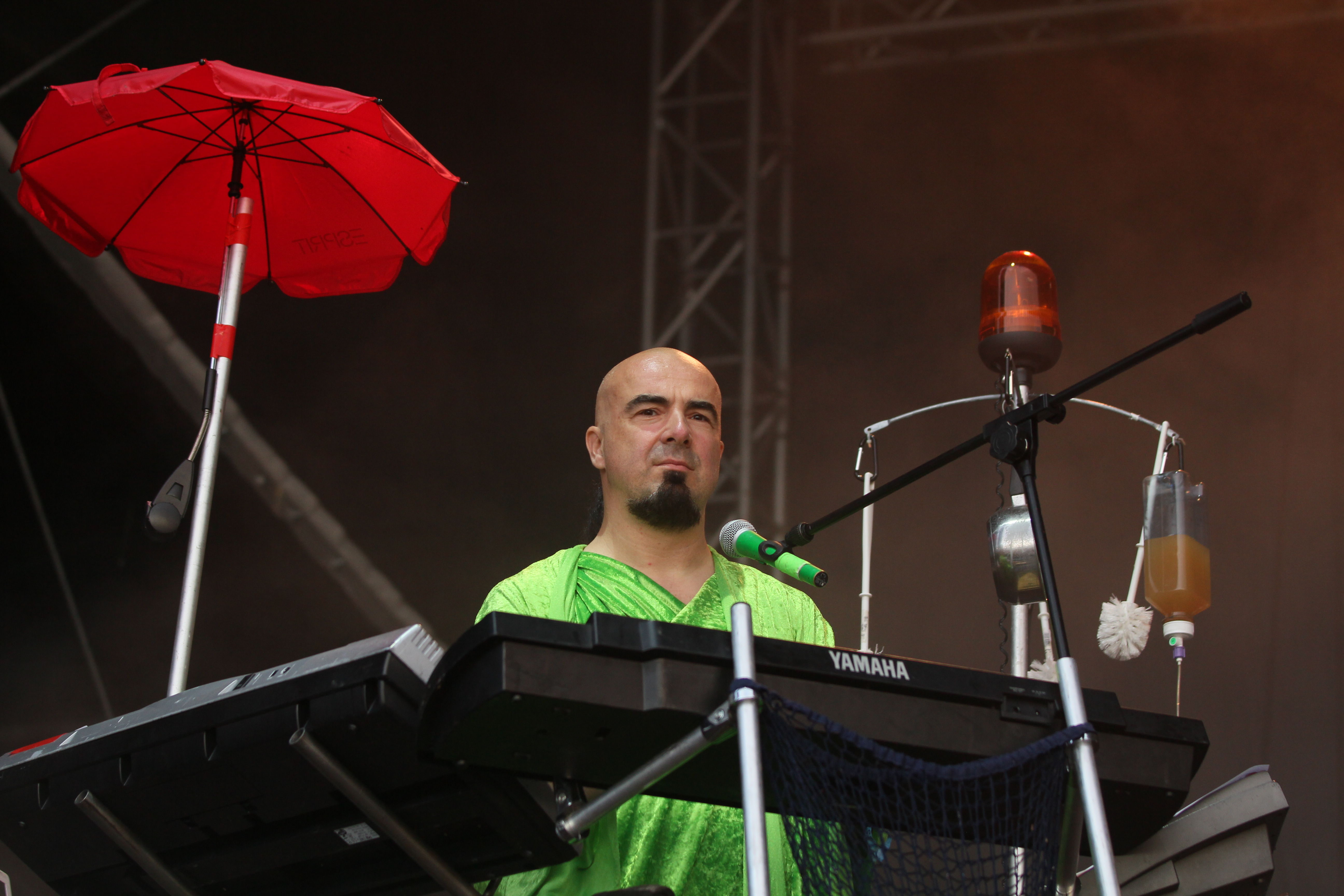 The German rock band Knorkator at the Rockharz Open Air 2014 in Ballenstedt/Germany